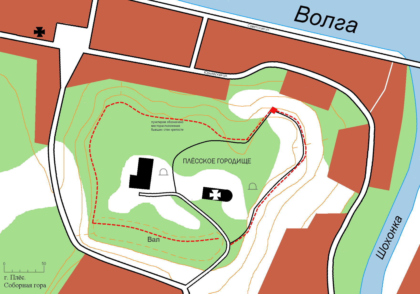 Map of the Plyos hill fort